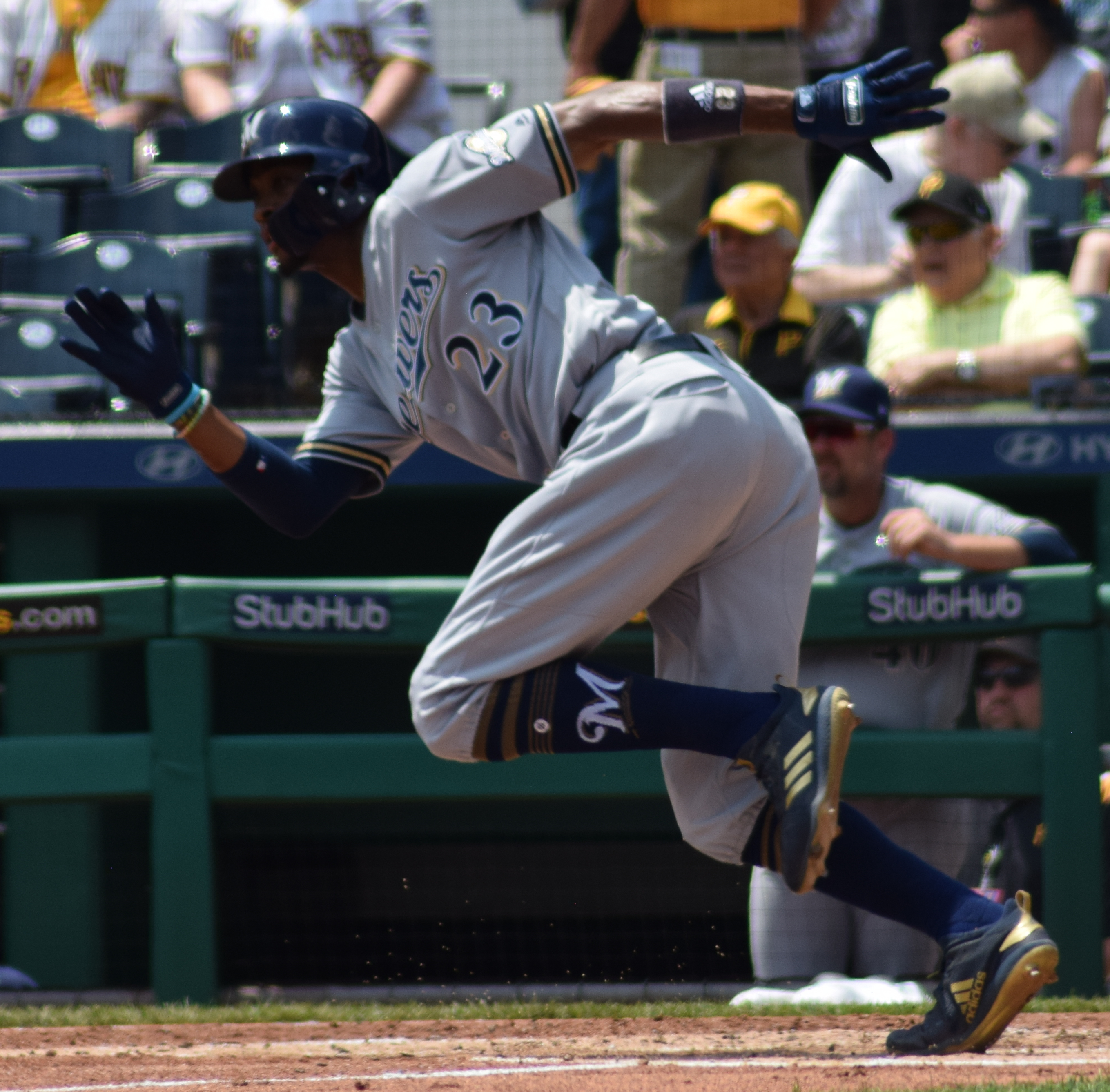 Keon Broxton with the Milwaukee Brewers at PNC Park in Pittsburgh in 2018